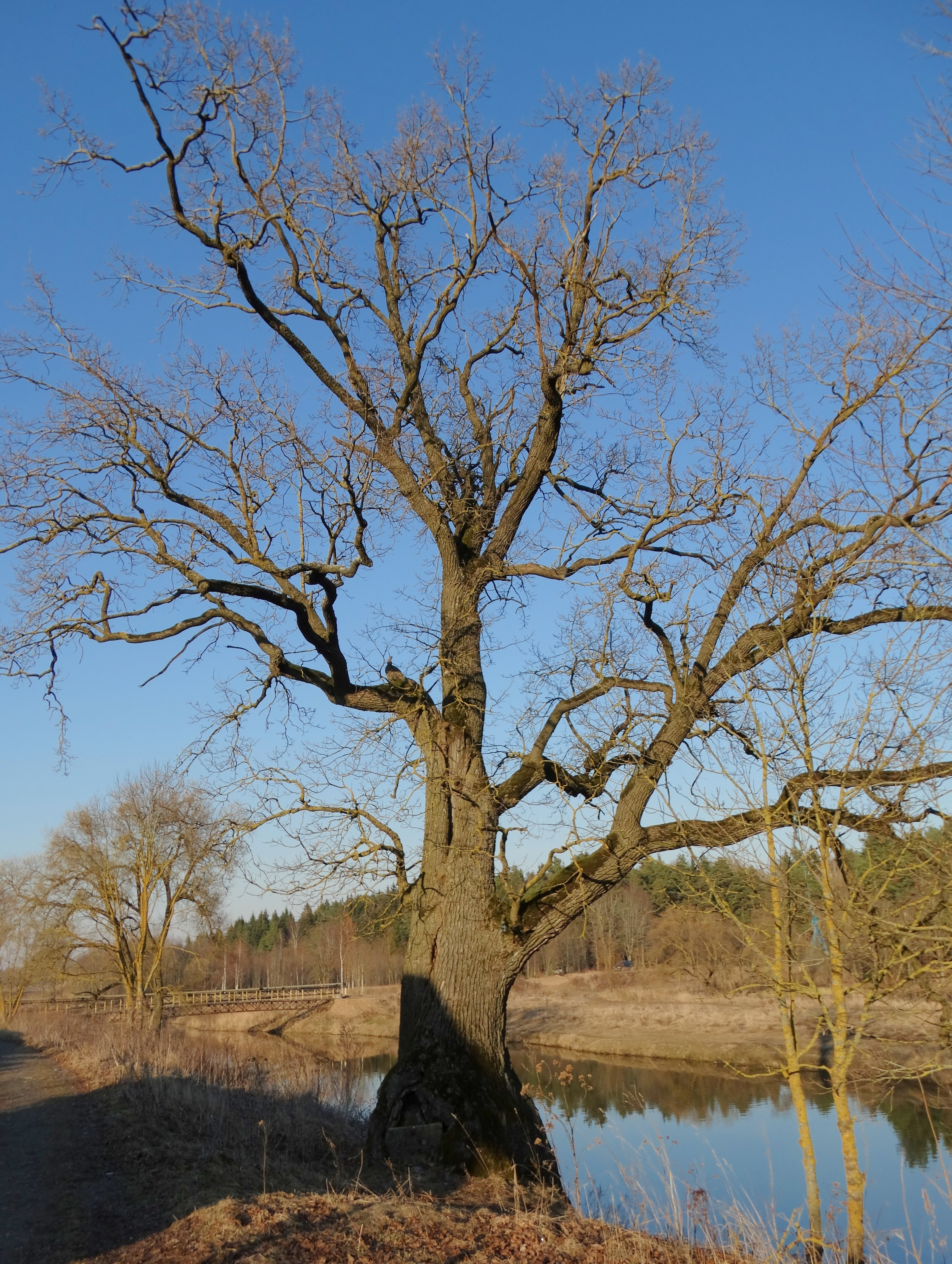 Oak, Pavenčiai, Šiauliai district, Lithuania